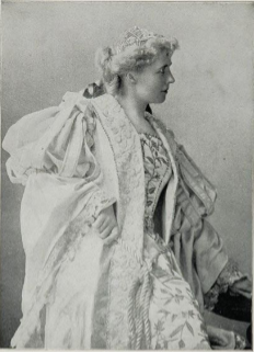 "Katherine Clemmons, Stage Photo". Chicago, 1894.